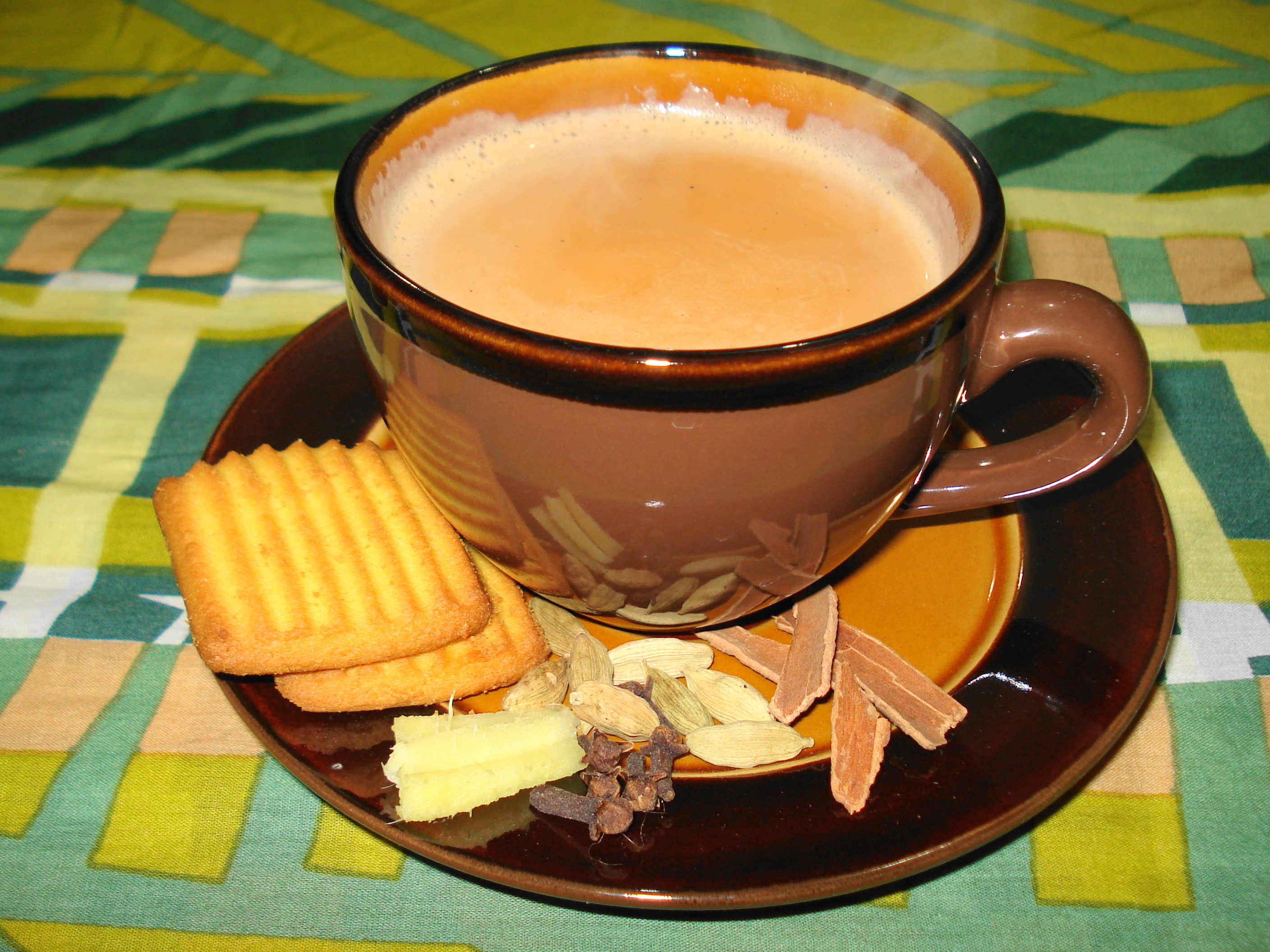 Masala Tea